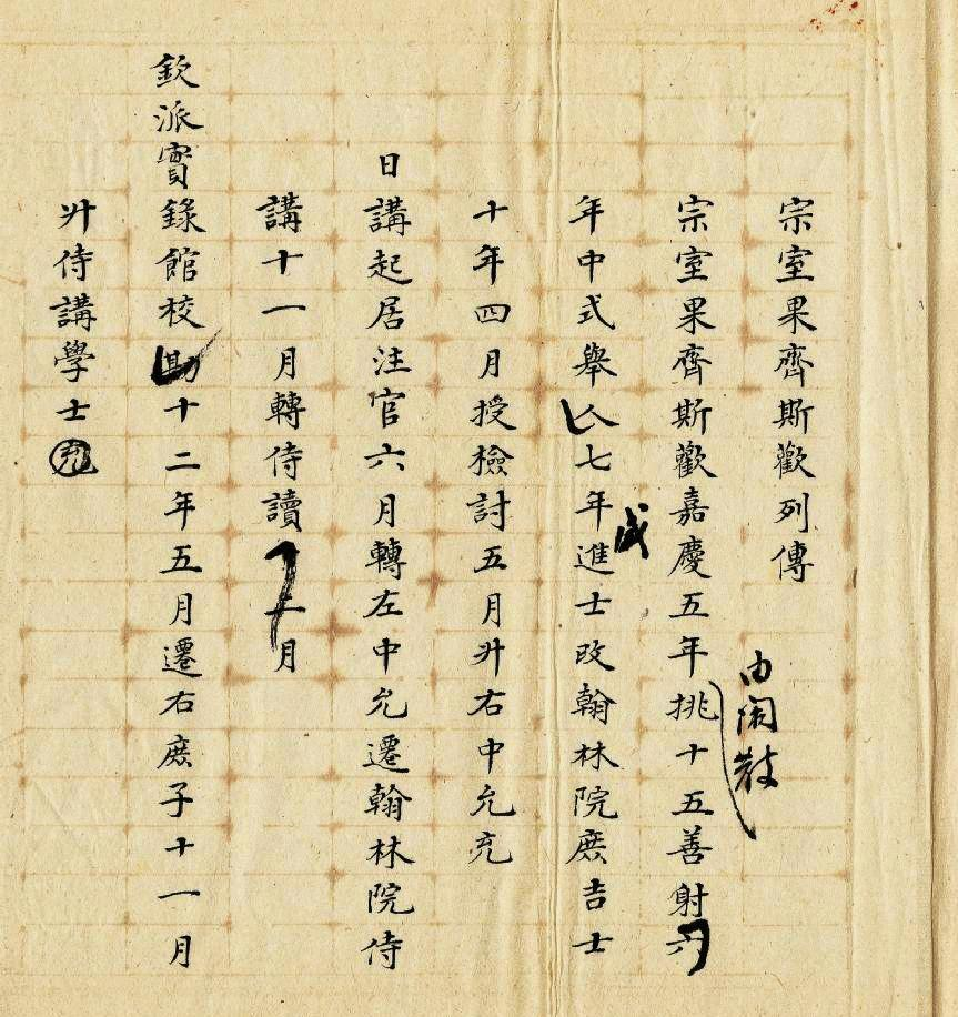 Biography of Guoqisihuan in Qing National Historiography Institute Archives